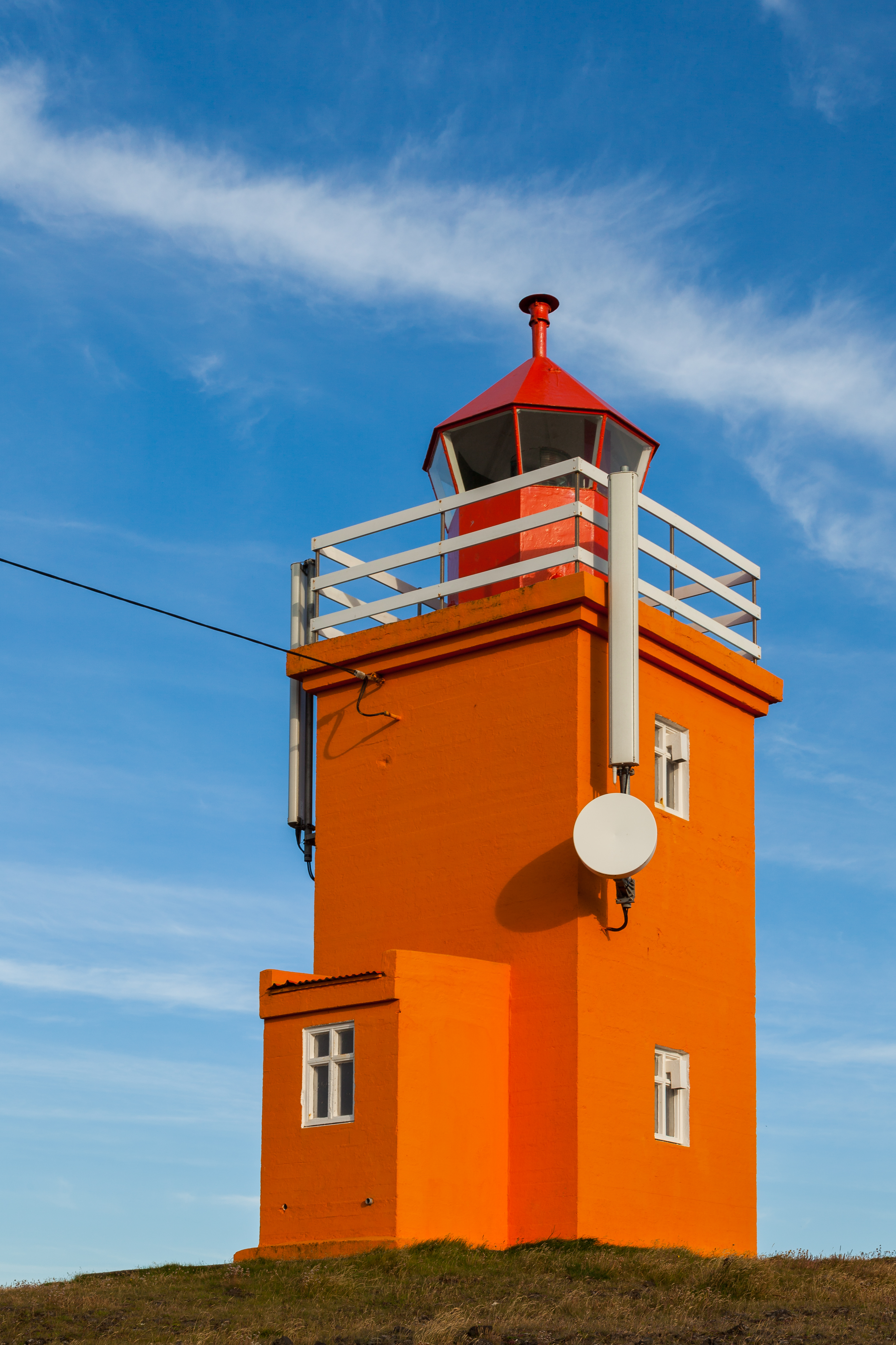 Hopsnes lighthouse, Suðurnes, Iceland